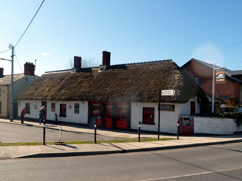 Foley's Thatched Tea Rooms